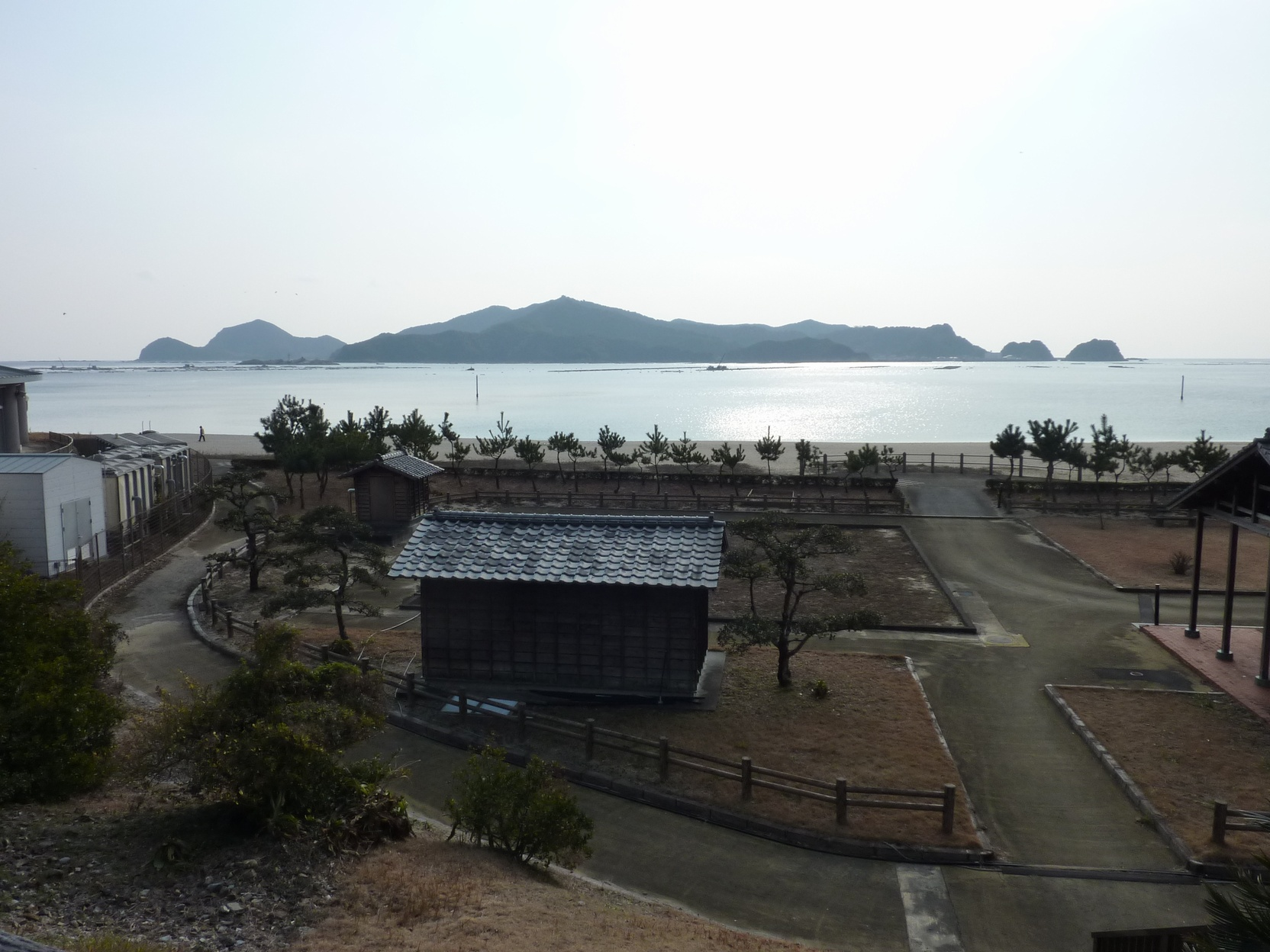 Shimaura Island (Nobeoka City, Miyazaki Prefecture, Japan)